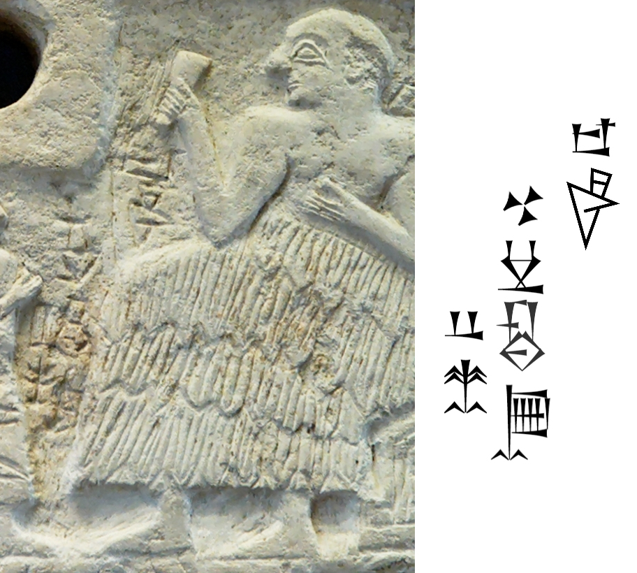 "Boats from the land of Dilmun carried the wood", on a relief of Ur-Nanshe.𒈣𒉌𒌇𒆳𒋫𒄘𒄑𒈬-𒅅 ma2 dilmun kur-ta gu2 gesz mu-gal2"Boats from the land of Dilmun carried the wood"Transliteration: CDLI-Found Texts. .Similar text: CDLI-Found Texts. .